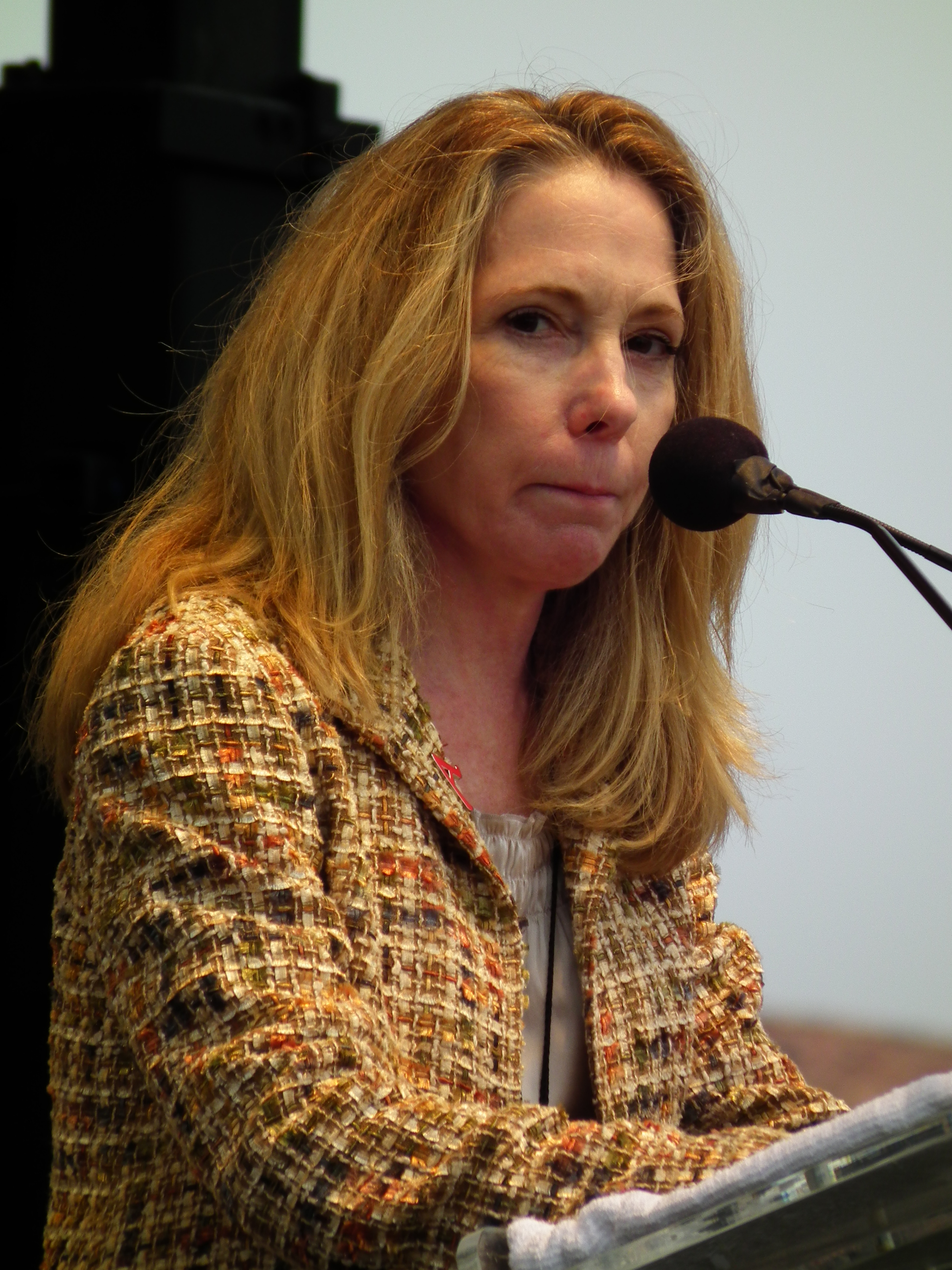 Dr. R. Elisabeth Cornwell Executive Director of the US branch of the Richard Dawkins Foundation for Reason and Science.